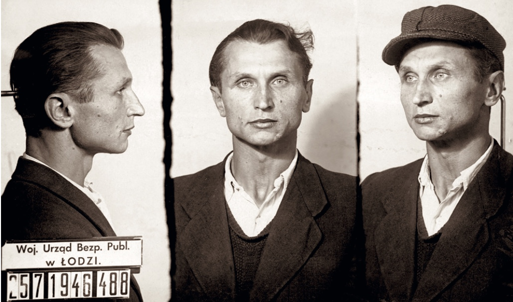 Stanisław Sojczyński „Warszyc” (1910-1947), Polish soldier, officer (captain) of Polish Army, partisan during WW II , commander of anti- Soviet unit during anti-Soviet guerilla warfare after 1945, arrested, executed.